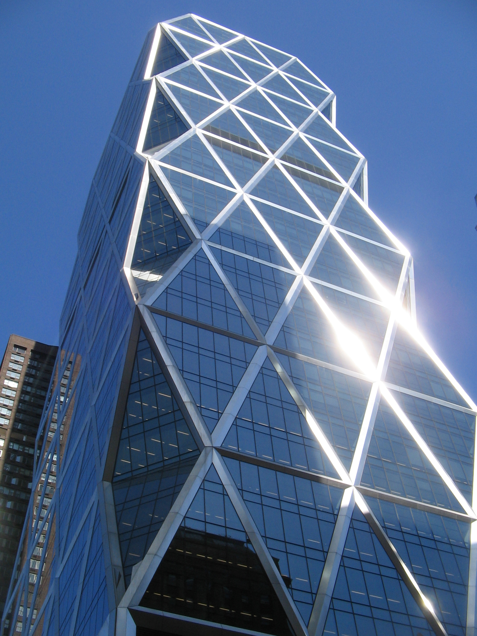 A detail shot of the facade of the Hearst Tower in New York City.